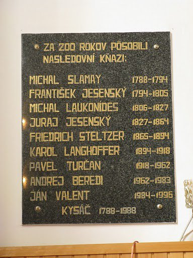 Pastors in Kisač